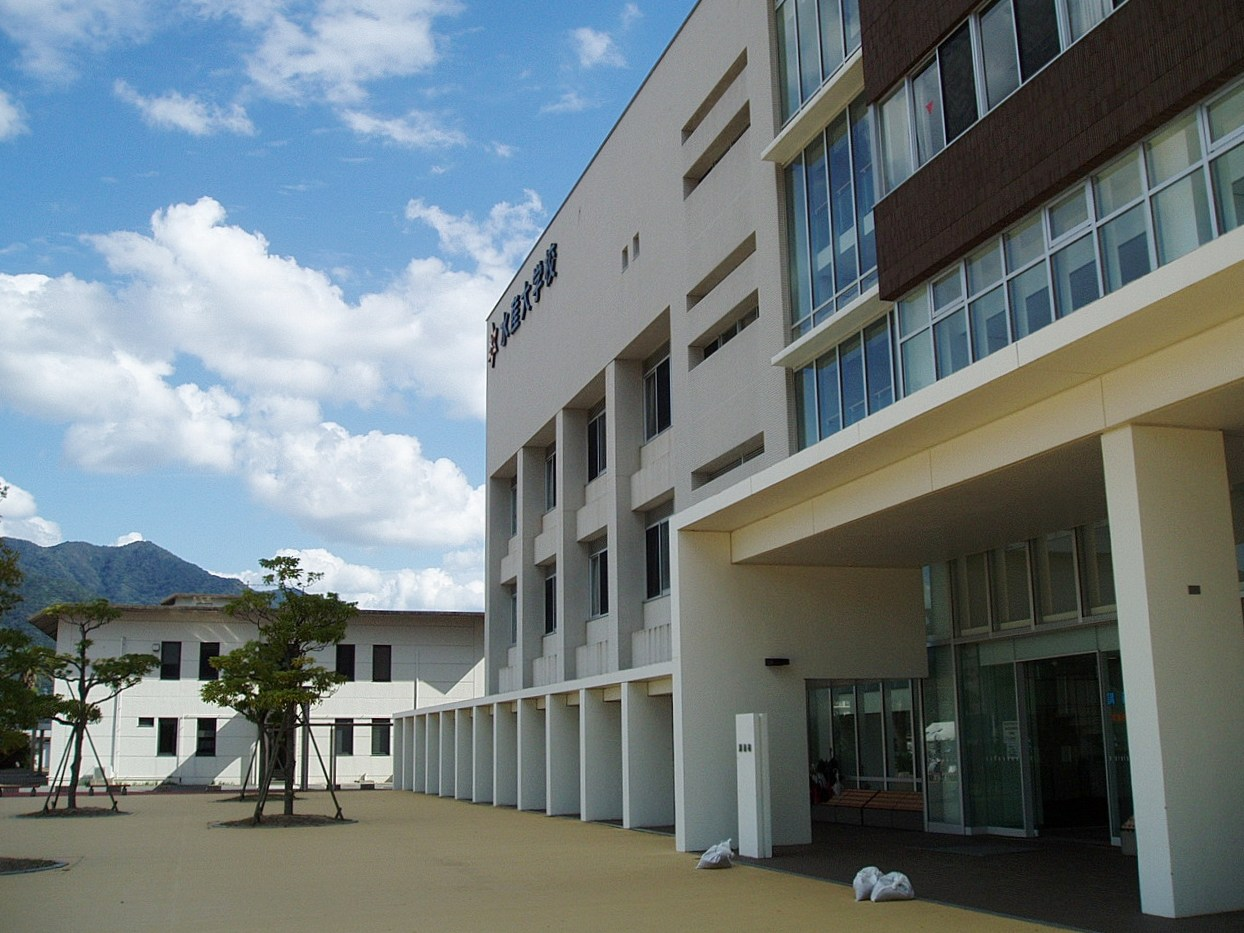 School House of the National Fisheries University (Japan), located in Shimonoseki, Yamaguchi, Japan.